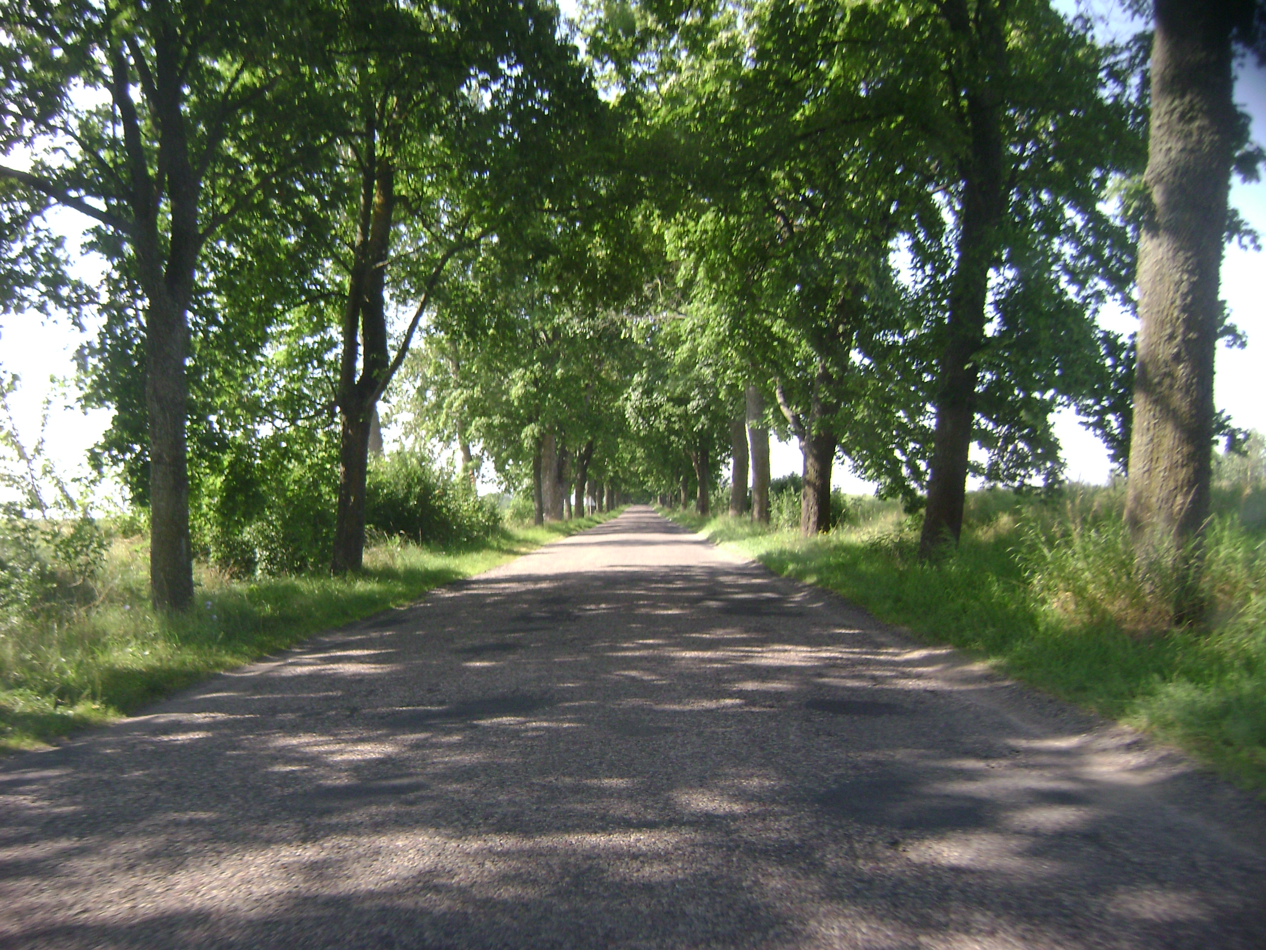 Voivodeship road 642 (Poland)